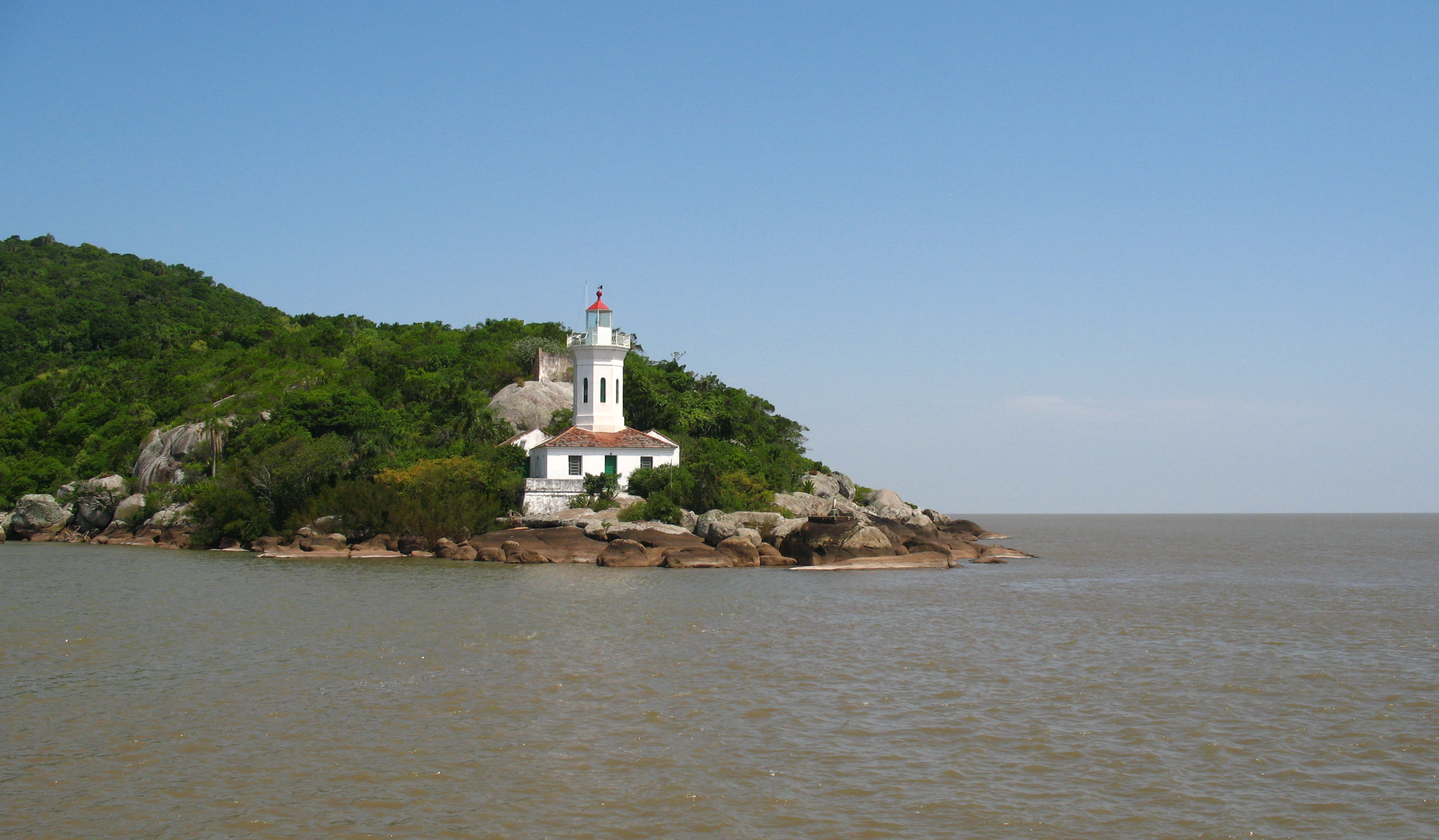 Itapuã da Lagoa Lighthouse, Channel, Lagoa dos Patos, State Park, Porto Alegre, Rio Grande do Sul, Brazil.